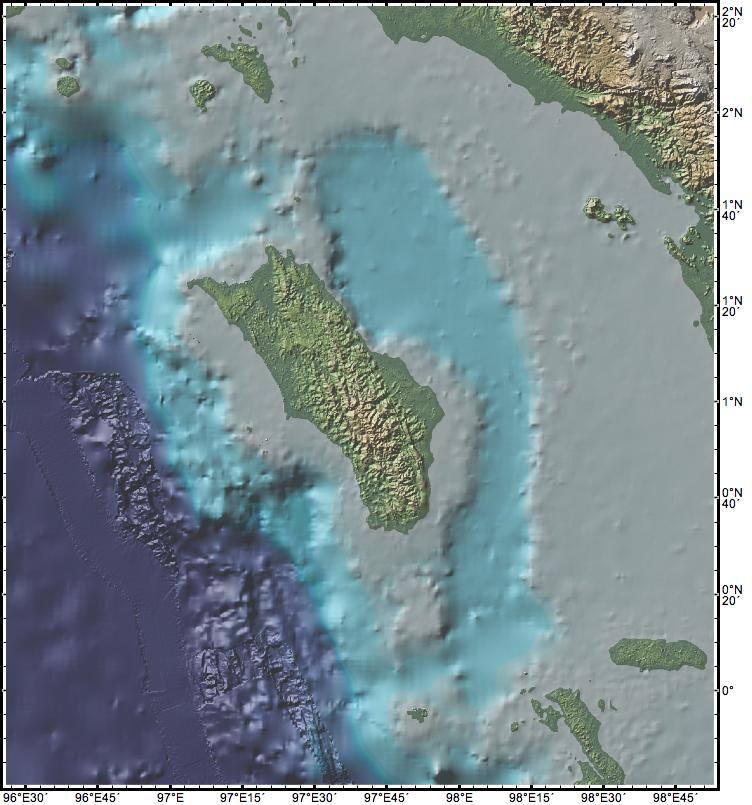 Satellite imagery of the Island of Nias, and the Nias Basin.